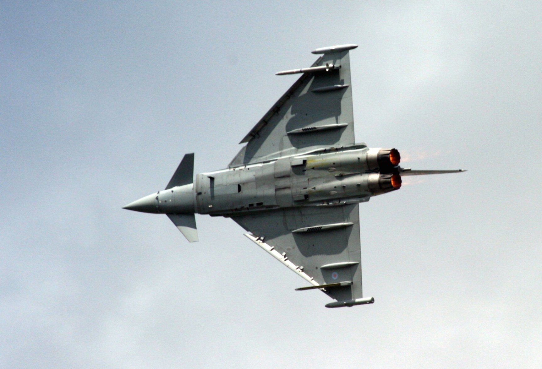 Eurofighter Typhoon at Farnborough Airshow, July 2008.